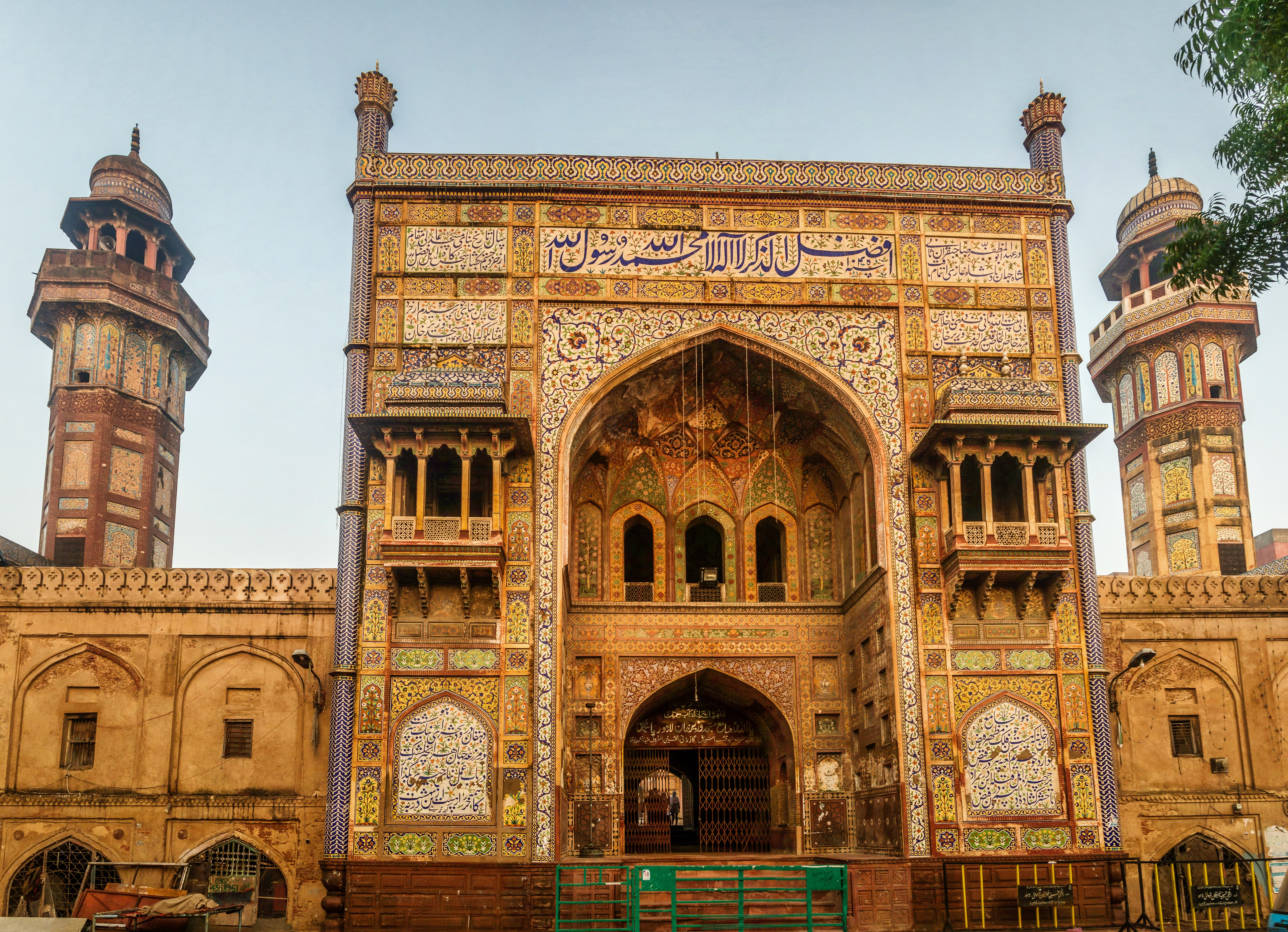 Wazir Khan Mosque This is a photo of a monument in Pakistan identified as the PB-100